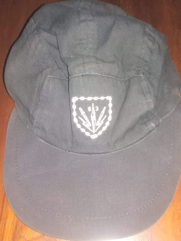 SADF 63 Mech field cap